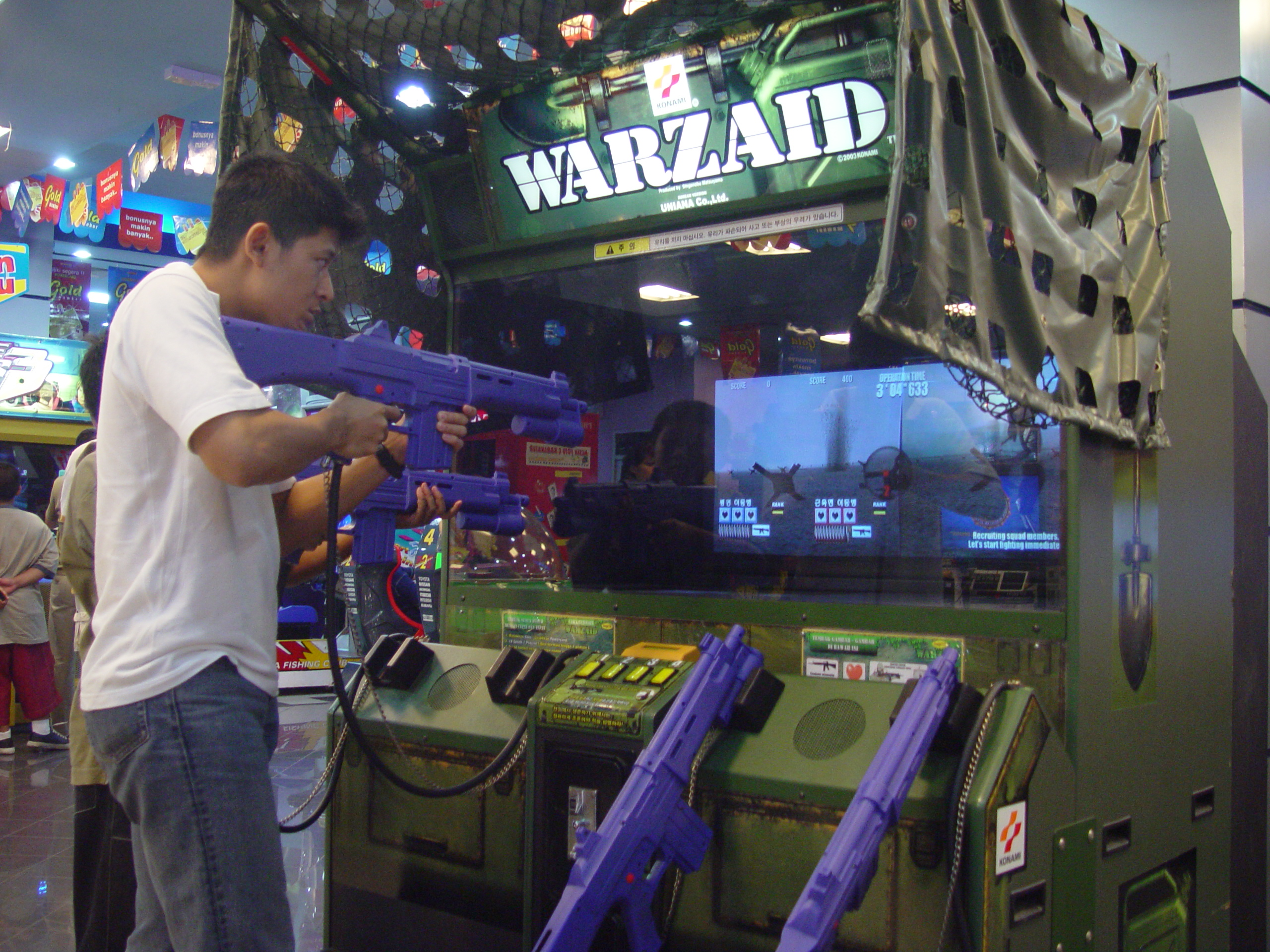 Mall cultural in Jakarta, Indonesia.